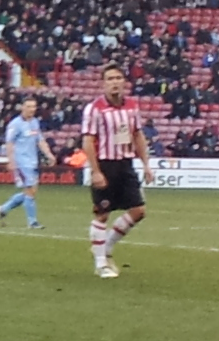 Jose Baxter playing for Sheffield United in December 2013.